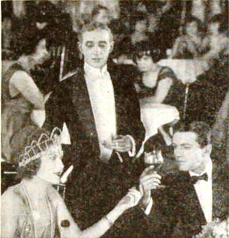 From the lost American silent film Experience (1921), on page 51 of the August 1921 Photoplay. "Youth (Richard Barthelmess) is enthralled by Pleasure (Lilyan Tashman) and, while Experience (John Miltern) looks on, is welcomed into the gay party."